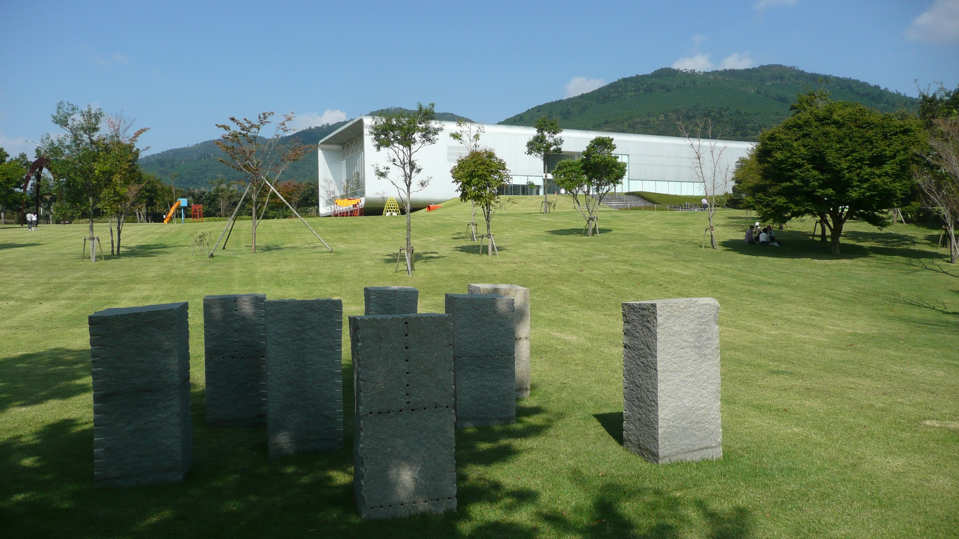 Kirishima open-air Museum (Yusui Town, Kagoshima, Japan)